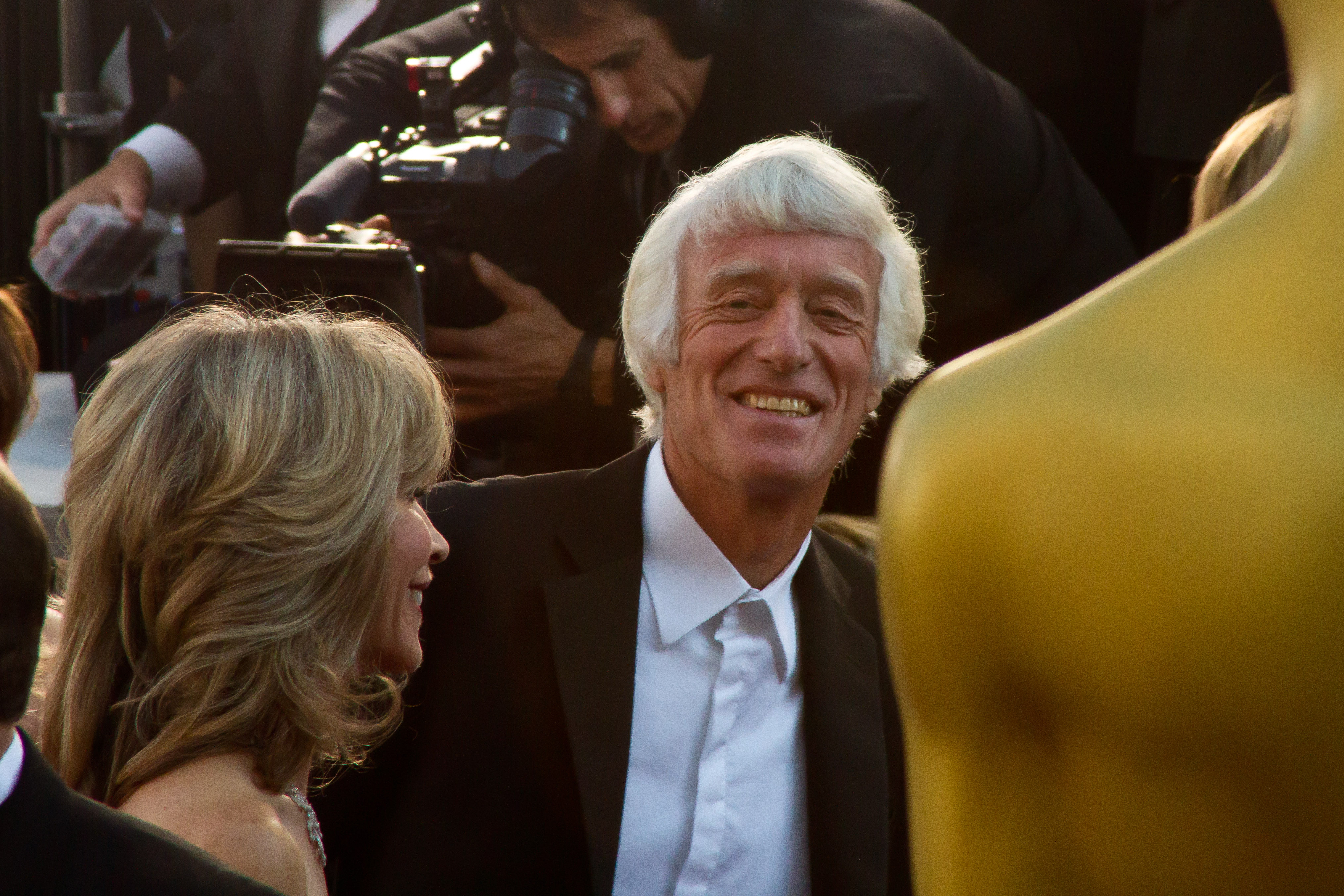 English cinematographer Roger Deakins at the 83rd Academy Awards